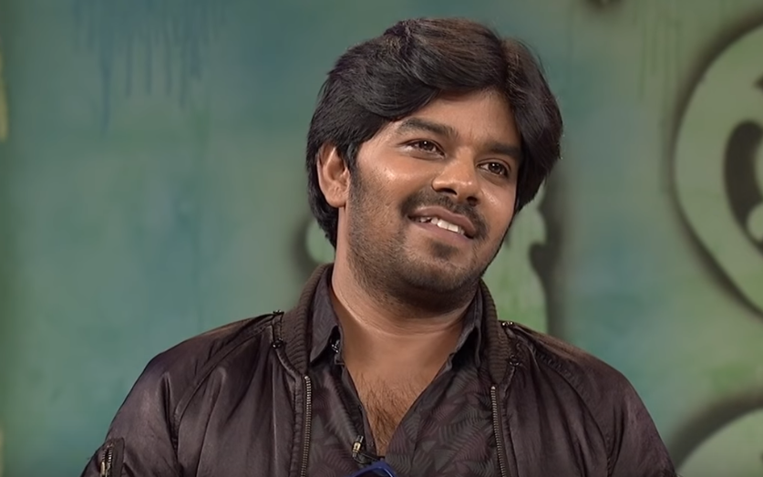 Sudigaali Sudheer from jabardasth